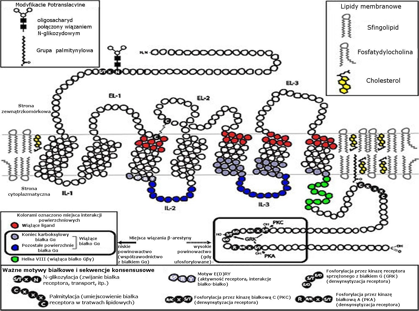 GPCR in membrane.pl